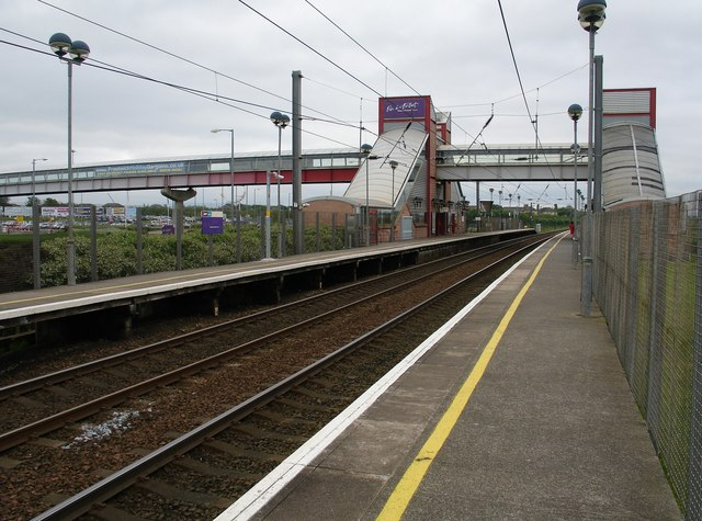 Prestwick Airport Station Looking south, this is an unmanned railway station (or Halt), allowing passengers to connect with the twice-hourly train service to Ayr or Glasgow. The overhead walkway crosses over the A77 and connects directly to the main terminal building.